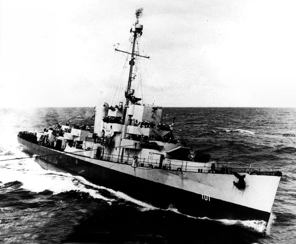 The U.S. Navy destroyer escort USS Alger (DE-101) underway at sea, circa in 1944. Alger is alongside of another ship, probably receiving or delivering mail.